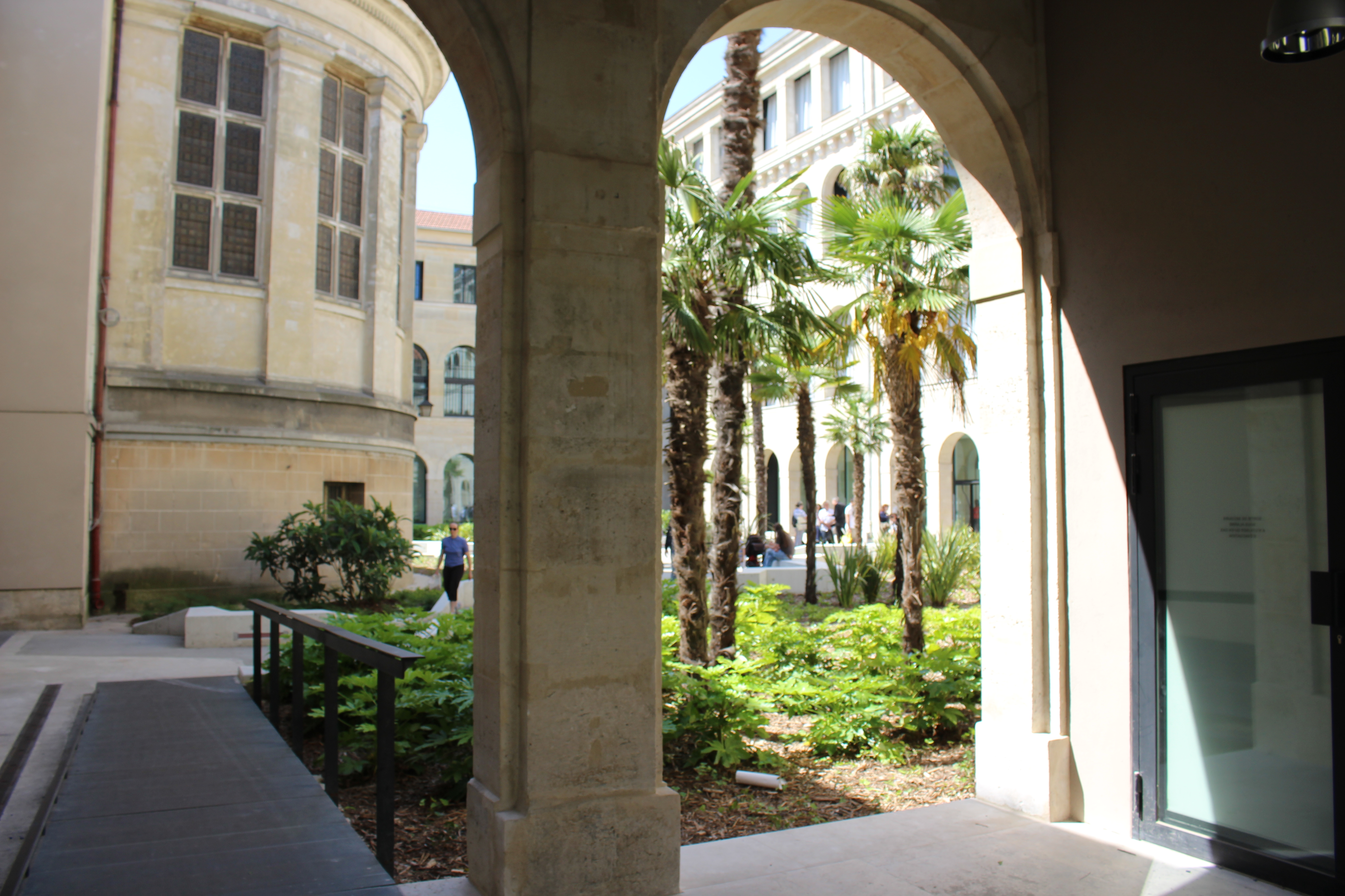 Françoise Sagan Library, 8 Rue Léon-Schwartzenberg, 75010 Paris, France.